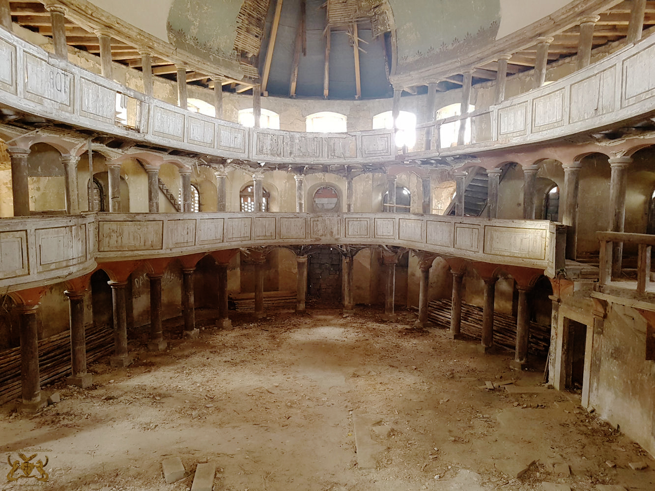 Żeliszów church